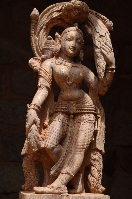 Nritya